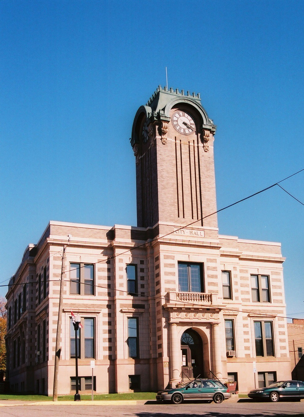 Negaunee City Hall, Negaunee, Michigan, USA